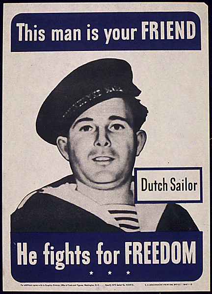 THIS MAN IS YOUR FRIEND. DUTCH SAILOR.